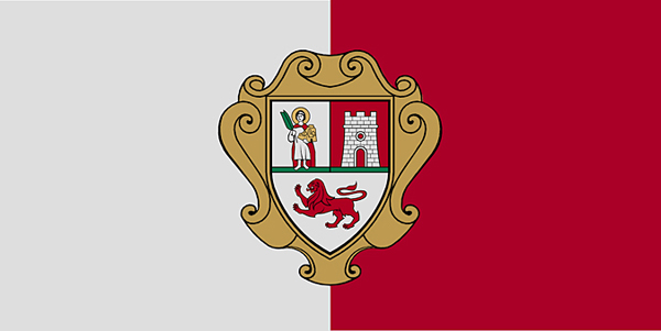 Flag of Kotor, officially adopted on 16.02.2009